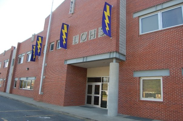 Lone Oak High School Front View